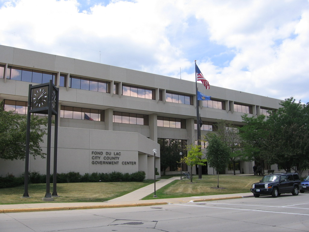 For use in Fond du Lac County and city articles. Front view of the Fond du Lac City/County government building.